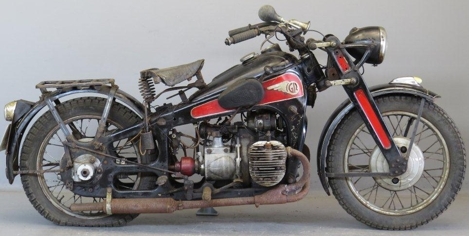 1940 Gnome et Rhone Model AX2 800 cc side valve motorcycle